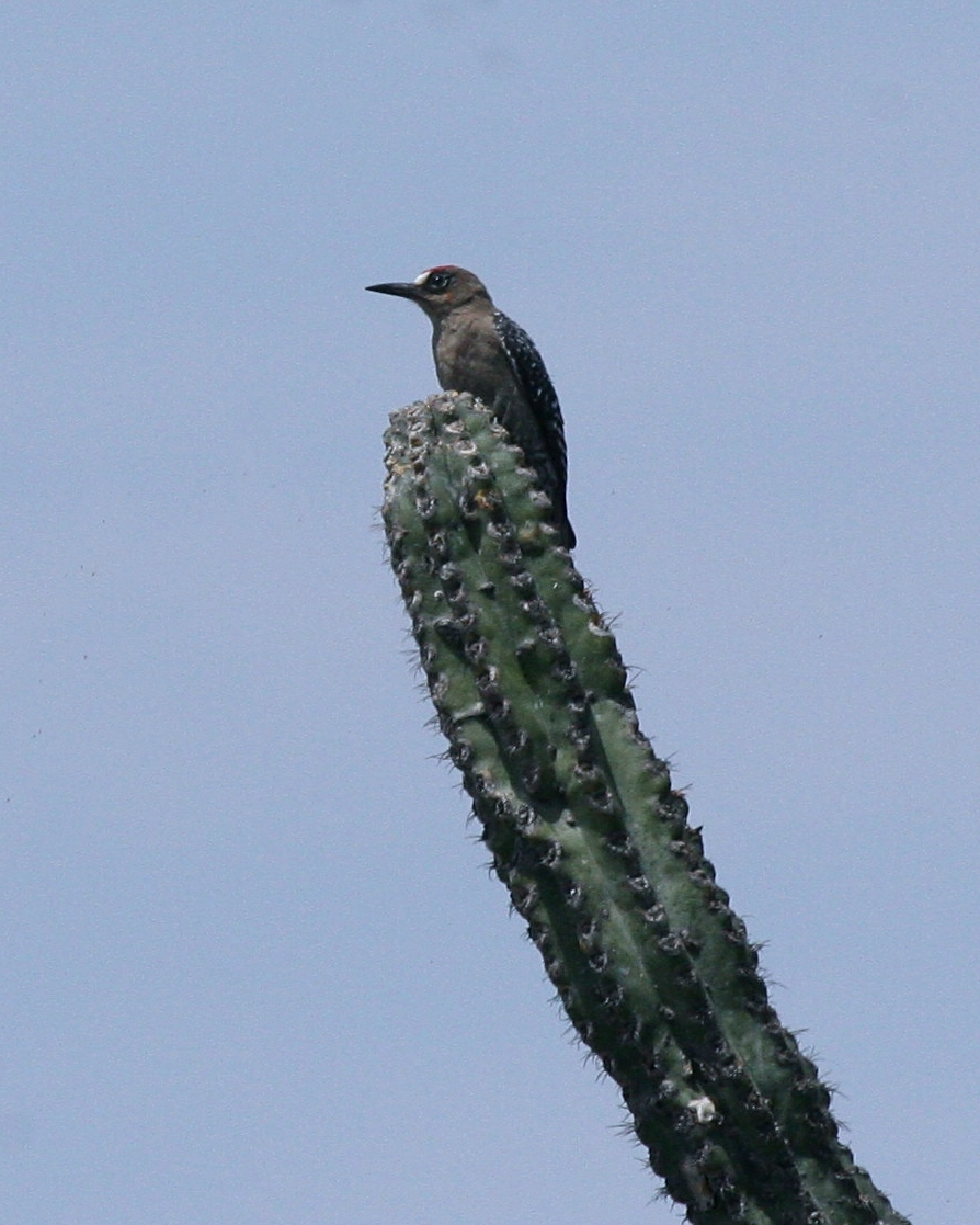 Gray-breasted Woodpecker Melanerpes hypopolius. Photographed at Teotitlan, Mexico